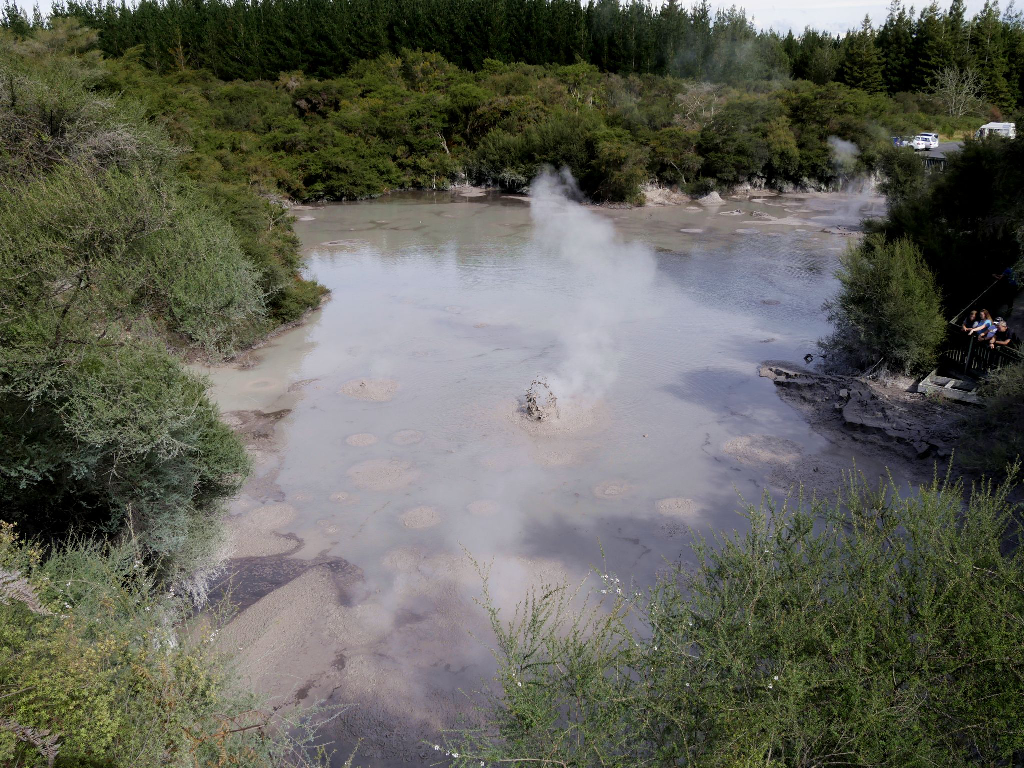 Mud vulcano in Wai-O-Tapu geothermal area, Waikato Region, North Island, New Zealand